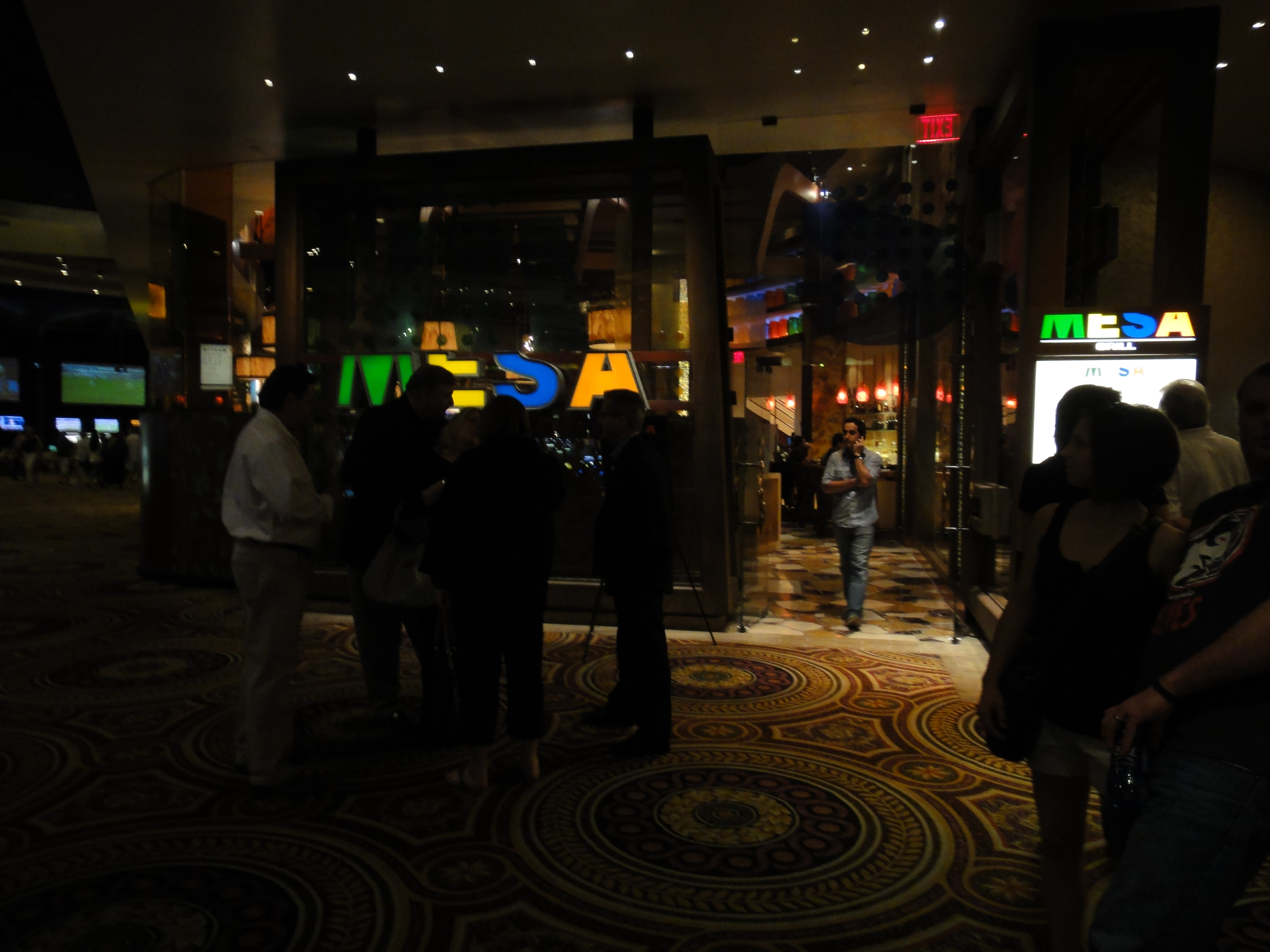 More about Mesa Grill at Mesa Grill Las Vegas Find Great [ Vegas Deals]